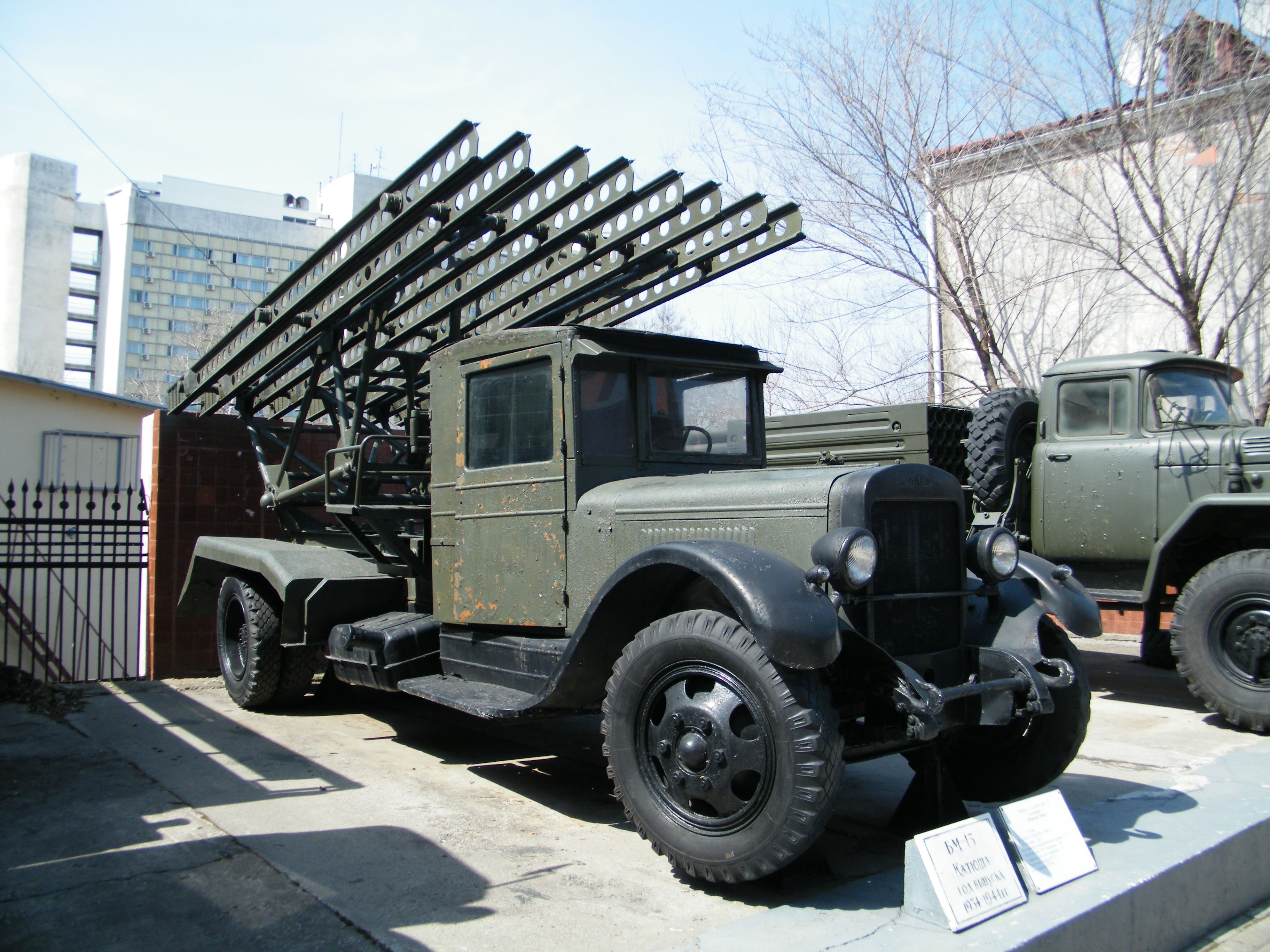 Khabarovsk Military Museum